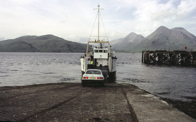 Suisnish Pier. Boarding the Ferry for Sconser